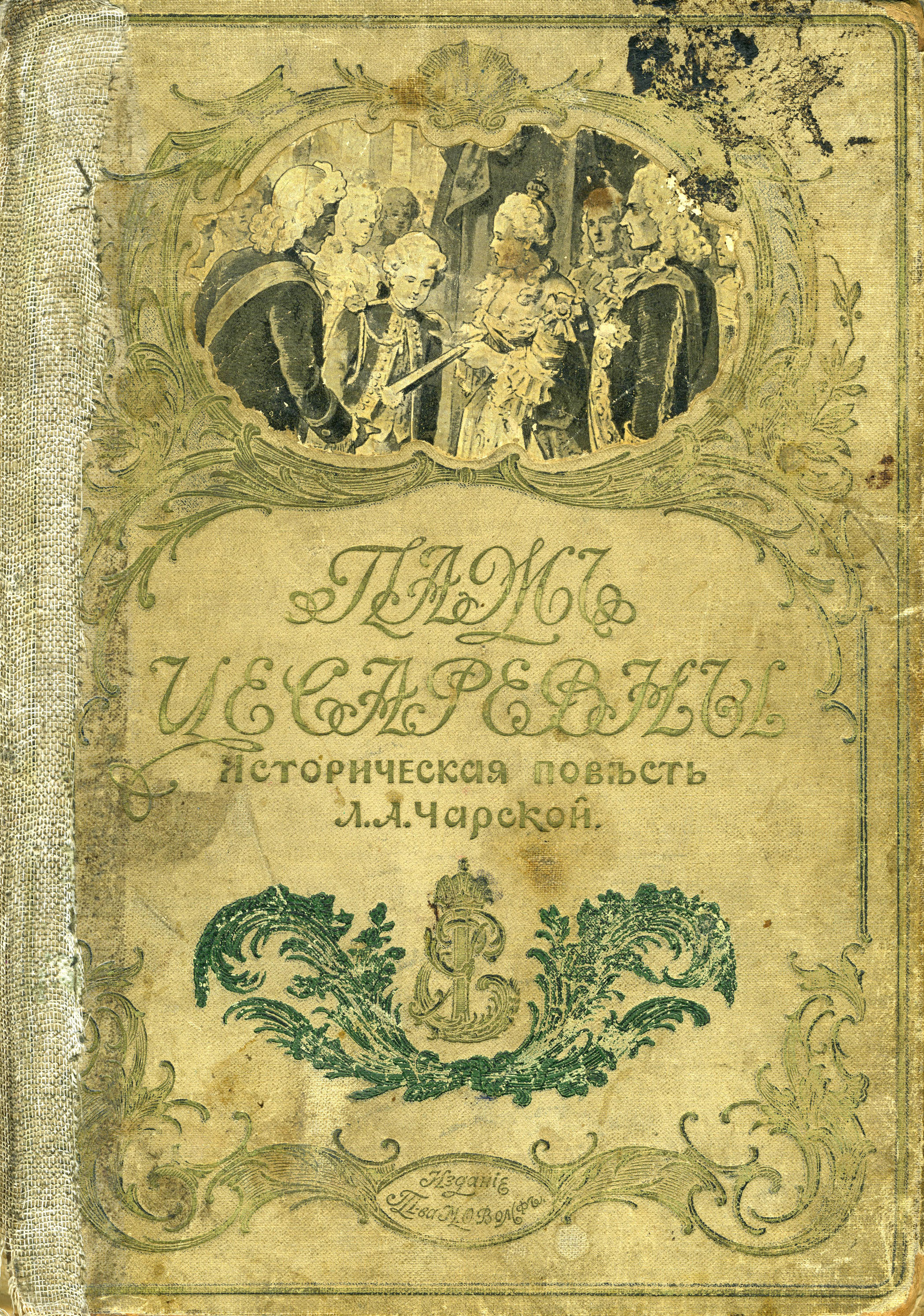 Cover of the book of L.A. Charskaja "The Page of The Crown Princess"